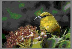 Amakihi (Hemignathus virens) Hawaiian Honeycreeper species